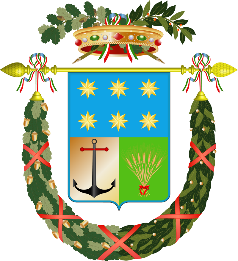 Coat of arms of Provincia di Crotone, Italy